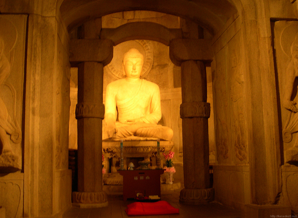 Seokguram Buddha in Gyeongju, Korea